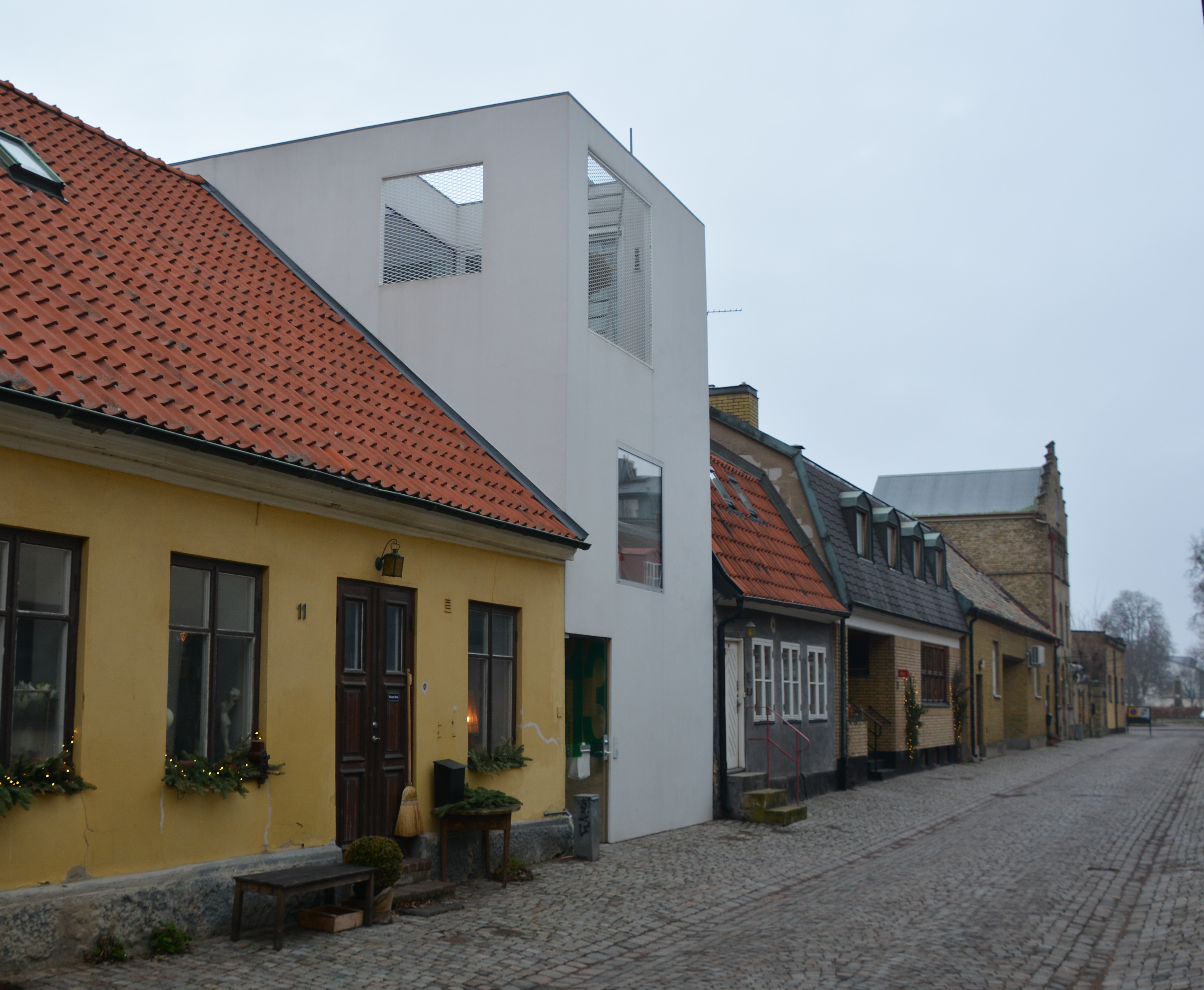 Hus i Landskrona av Elding Oscarson Arkitekter